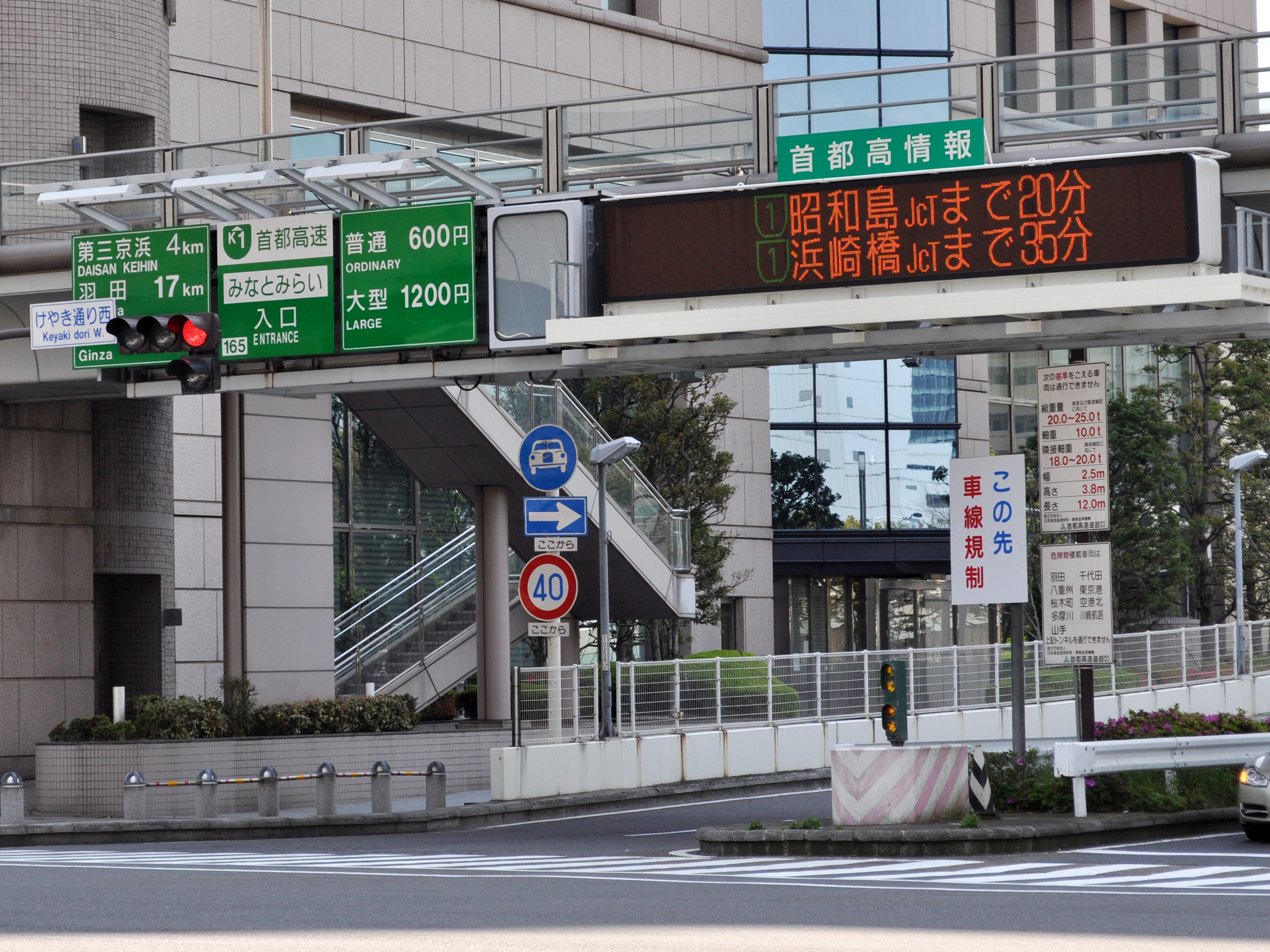 Entrance of Minato Mirai IC on Kanagawa Route 1 Yokohane Line in Yokohama, Japan.